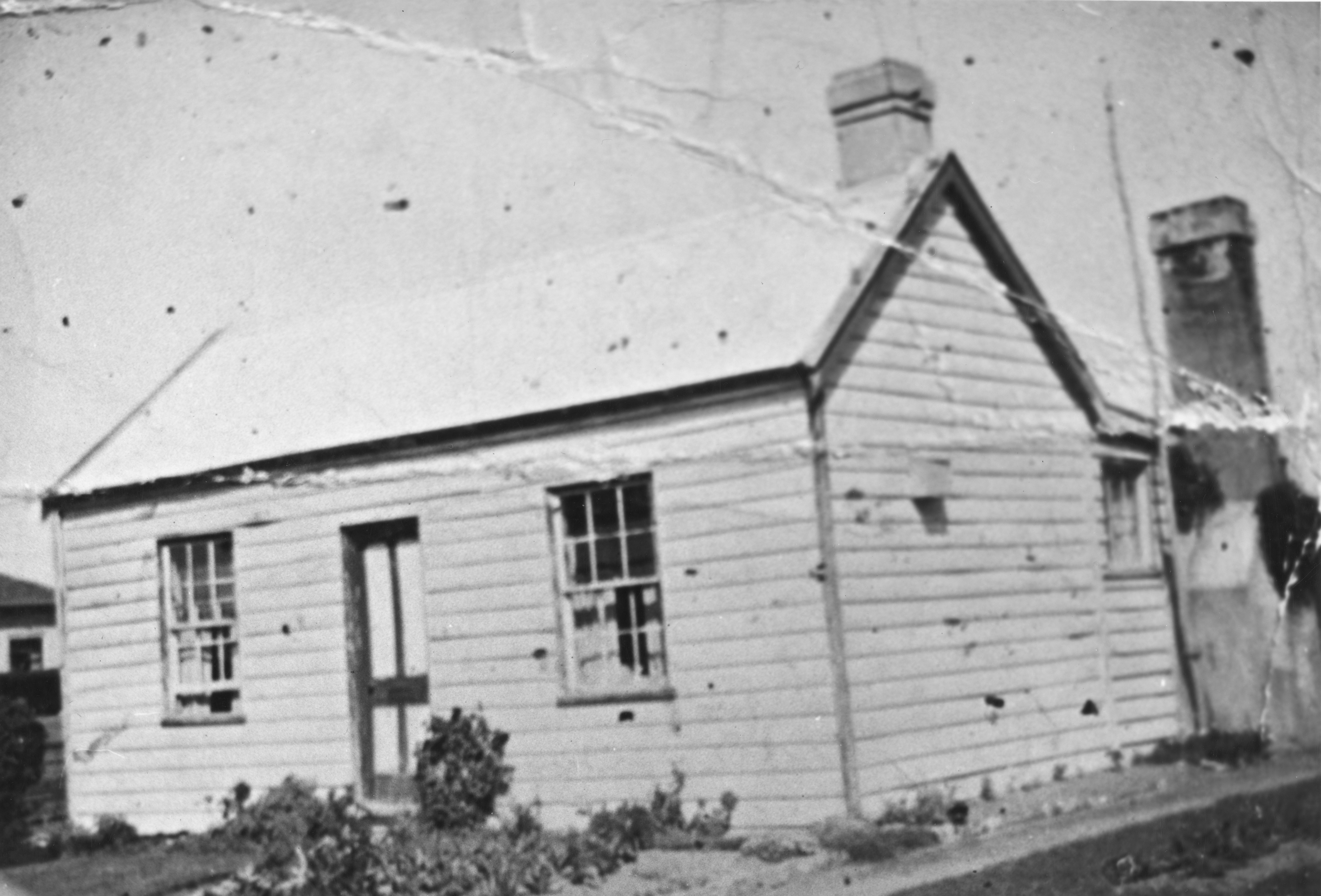 Norman Kirk's childhood home ? Photograph taken circa 1920s-1930s by an unidentified photographer.